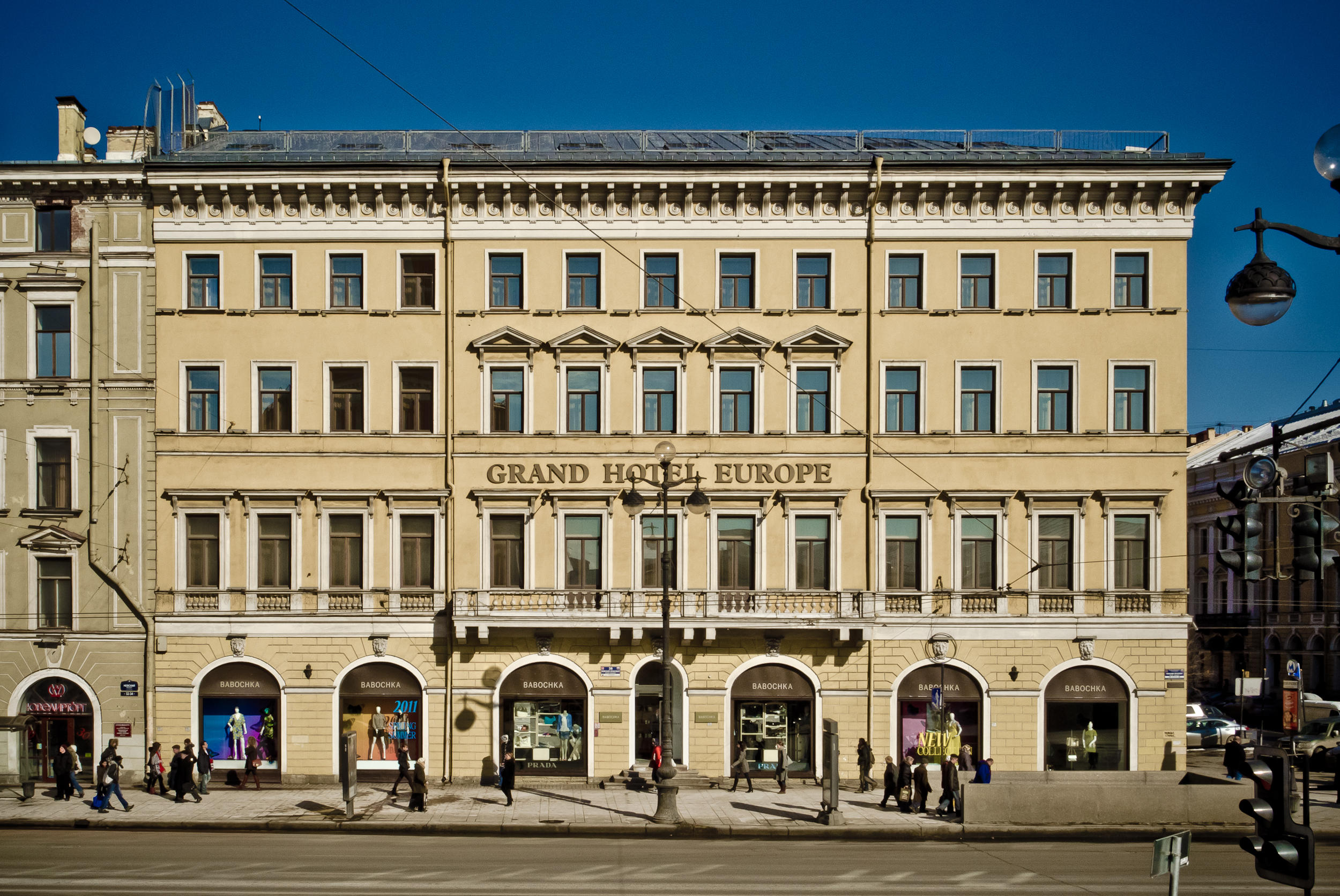 The Grand Hotel Europe in Saint Petersburg, view from Nevskiy Prospekt